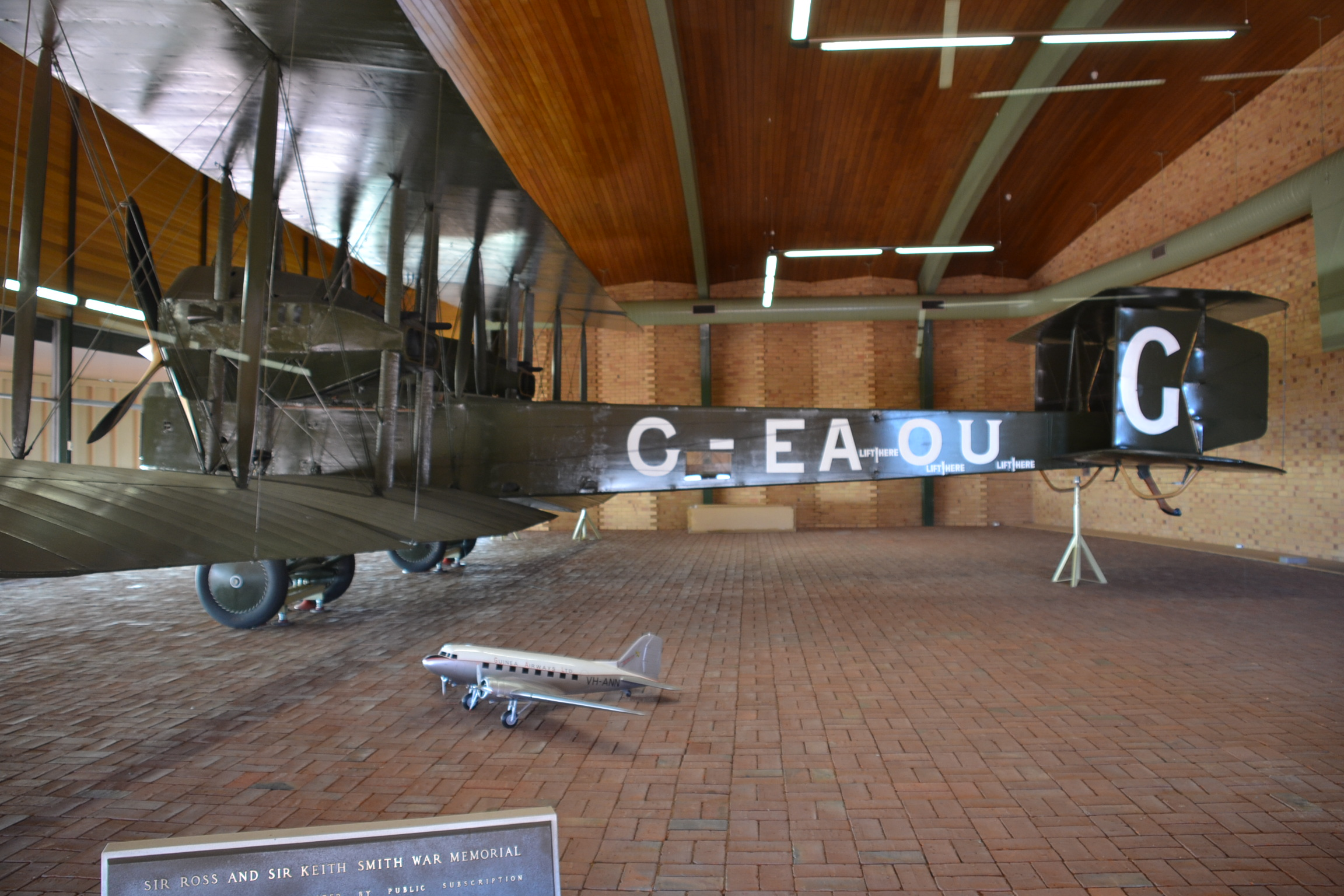 Vickers FB.27A Vimy IV, preserved at the Sir Ross & Sir Keith Smith War Memorial at Adelaide-ADL,SA.,Australia, 25/11/14.